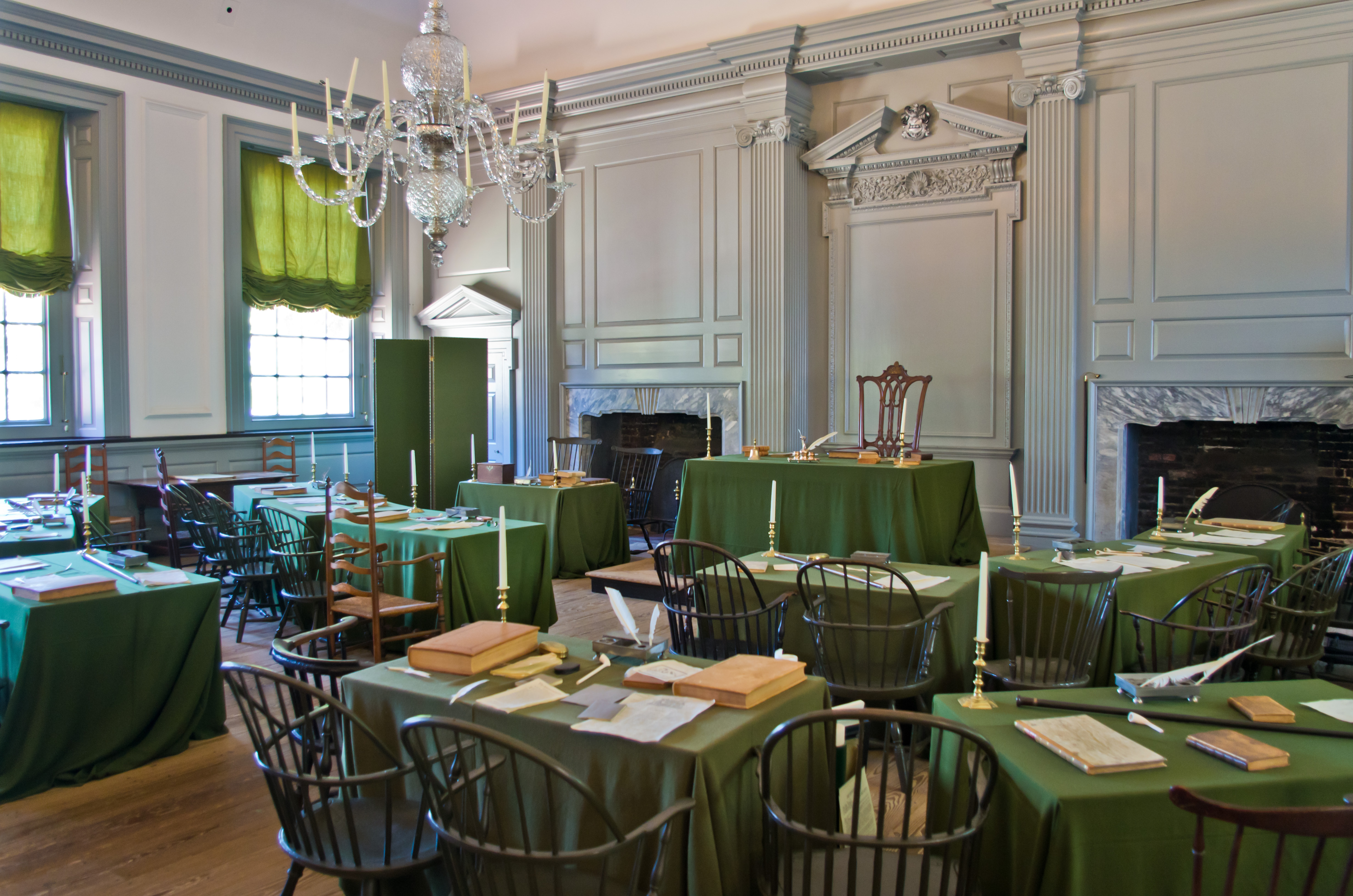 Independence Hall, Philadelphia